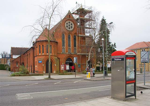 East Finchley Methodist Church Parishioners leave after the service on Christmas Day 2008.